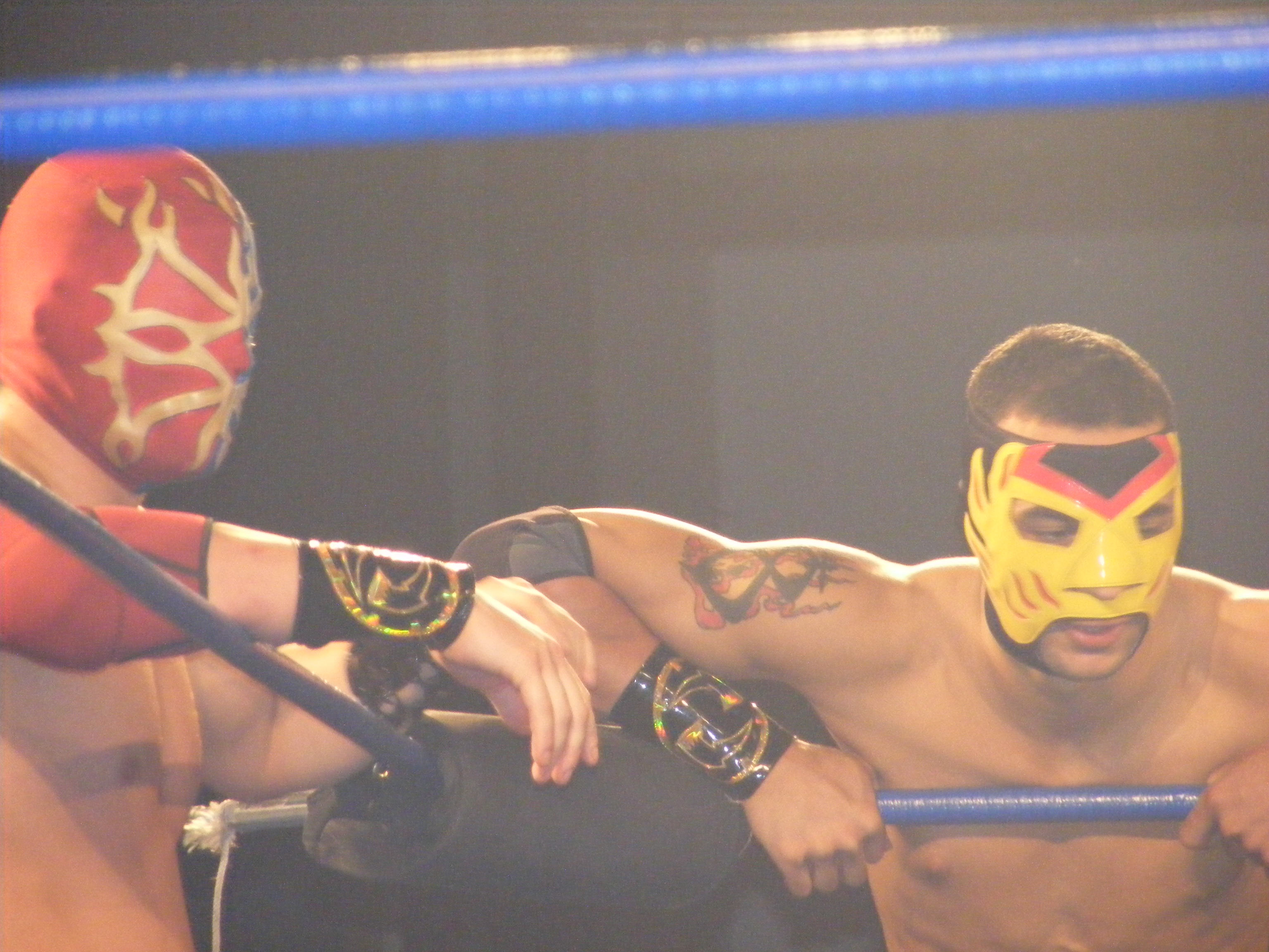 Professional wrestlers Equinox (real name Jimmy Olsen) and Helios at Chikara's Trios Night 2 in Philadelphia on April 24, 2010.